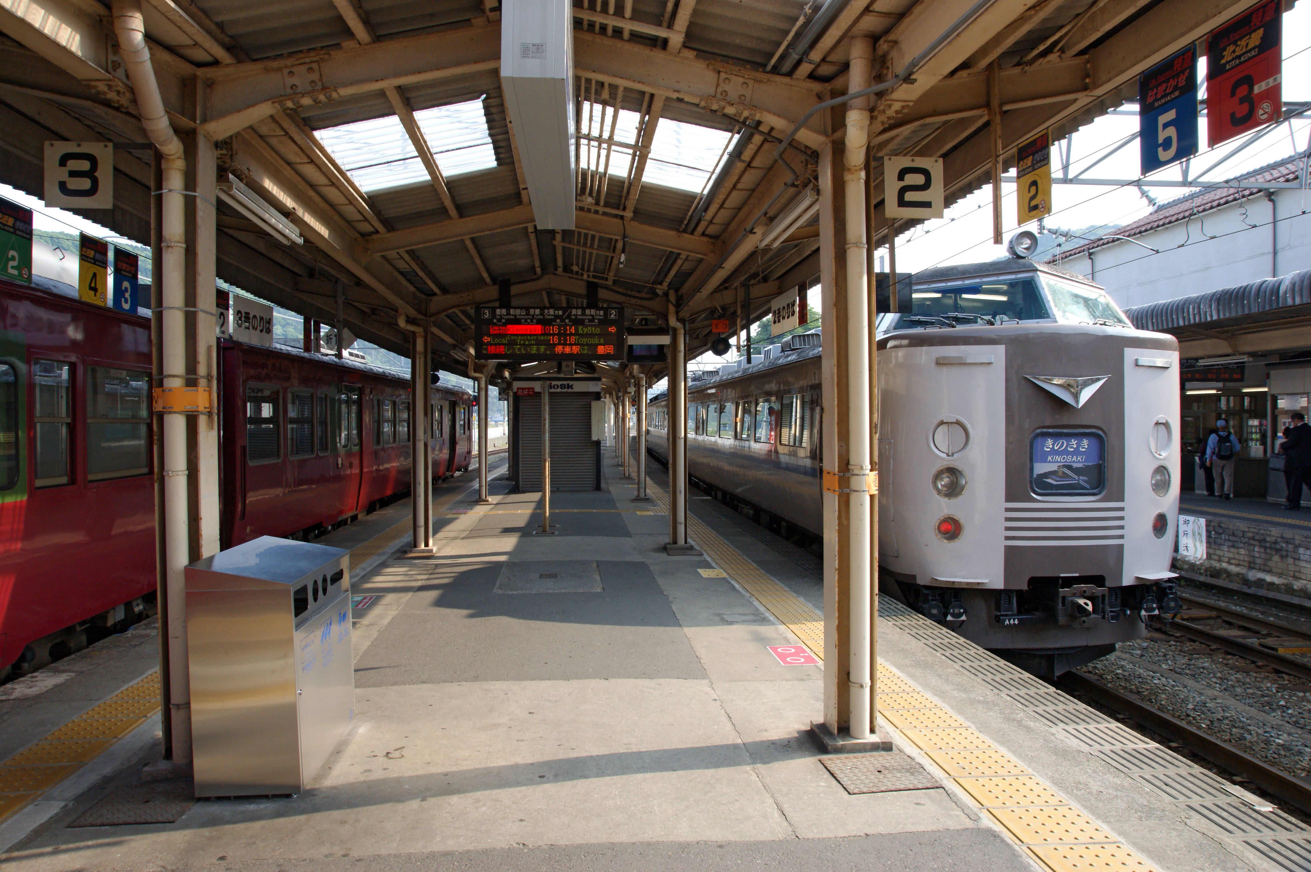 Kinosaki Onsen Station, Kinosaki Onsen in Toyooka, Hyogo prefecture, Japan